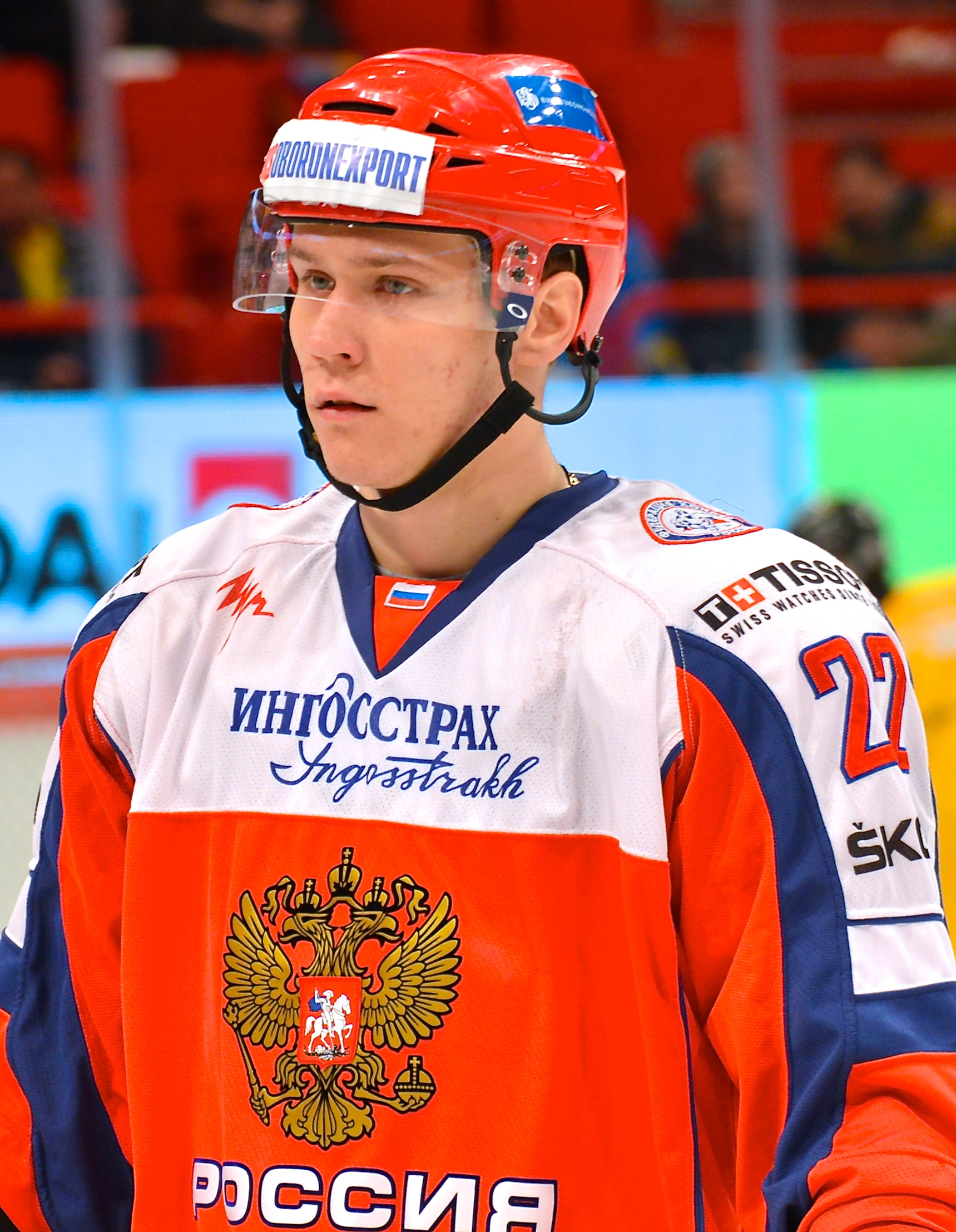 Nikita Zajtsev during Oddset Hockey Games against Russia (2-0) at the Ericsson Globe in Stockholm on May 4th, 2014.